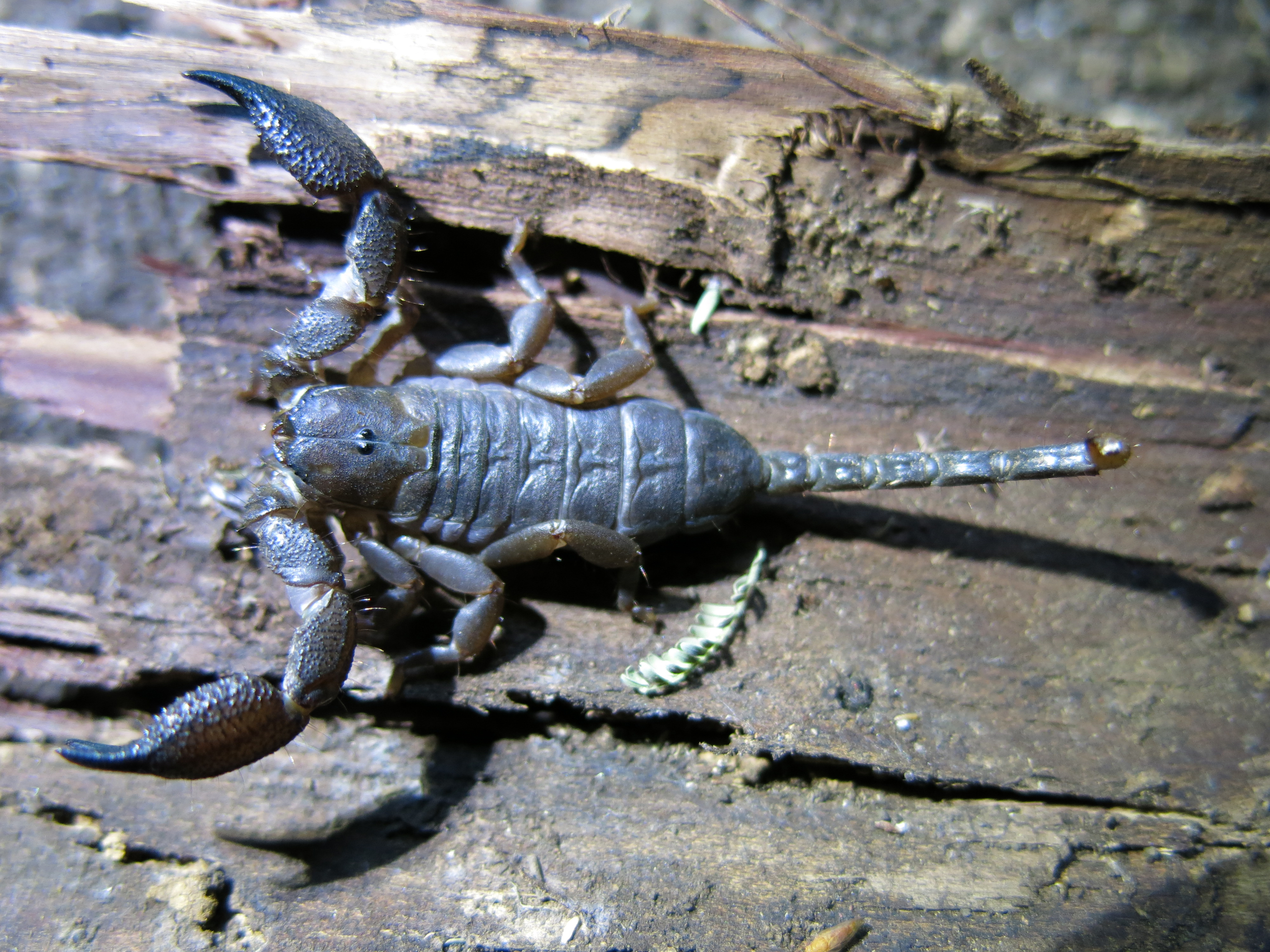 Opisthacanthus asper, Makuleke, South Africa